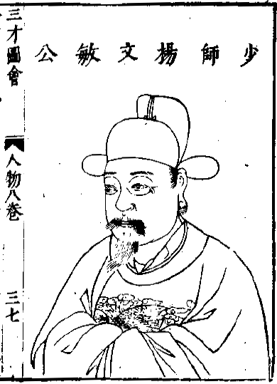 Yang Rong, politician of the Ming Dynasty.